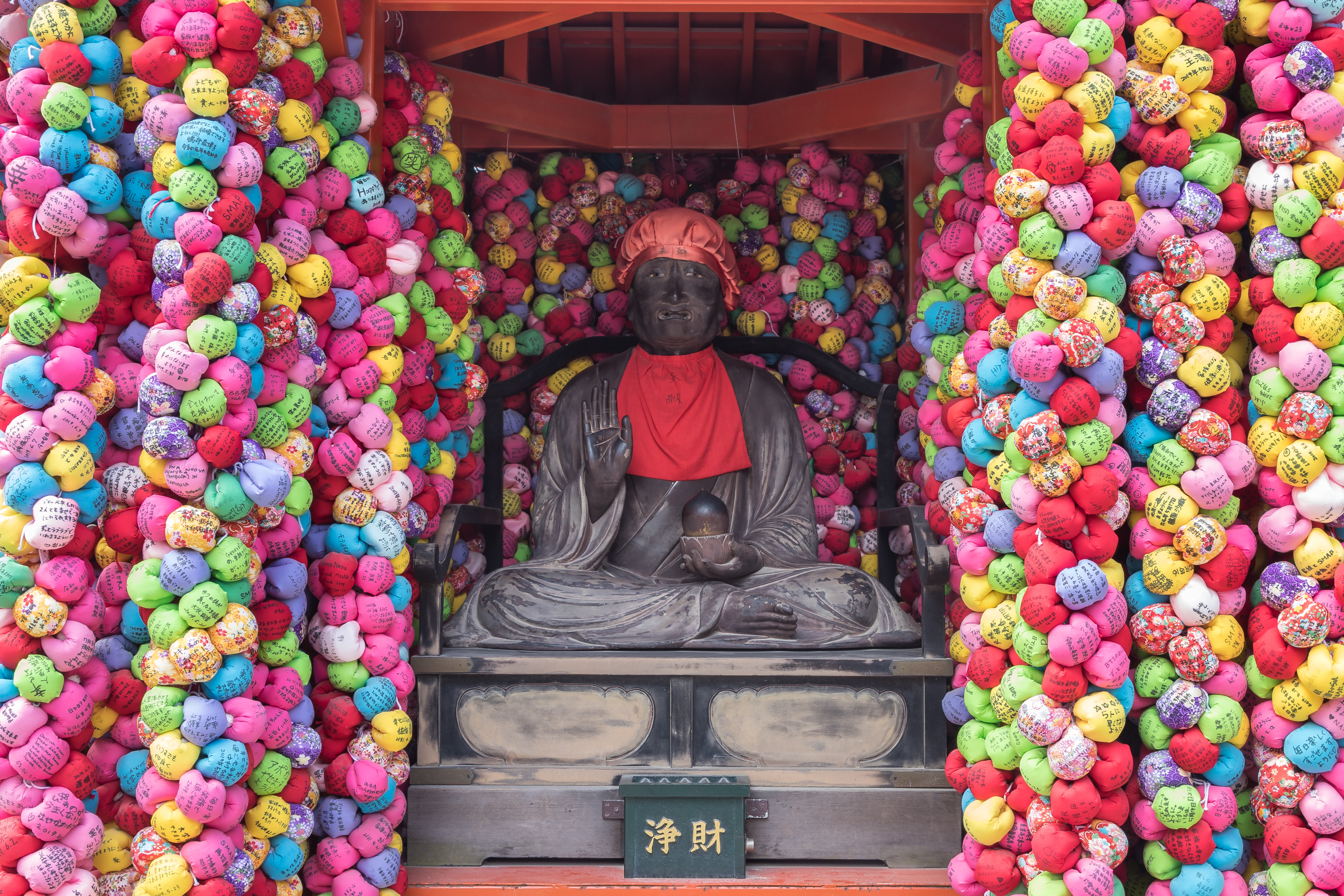 Multi-coloured kukuri-zaru talismans (worship balls) around a Kōshin statue, at Kongoji Yasaka Kōshin-dō temple, Higashiyama-ku district, Kyoto, Japan. Worshippers write their wishes on these balls made of cloth called “kukurizaru”, representing the three wise monkeys, and hang them at the site.